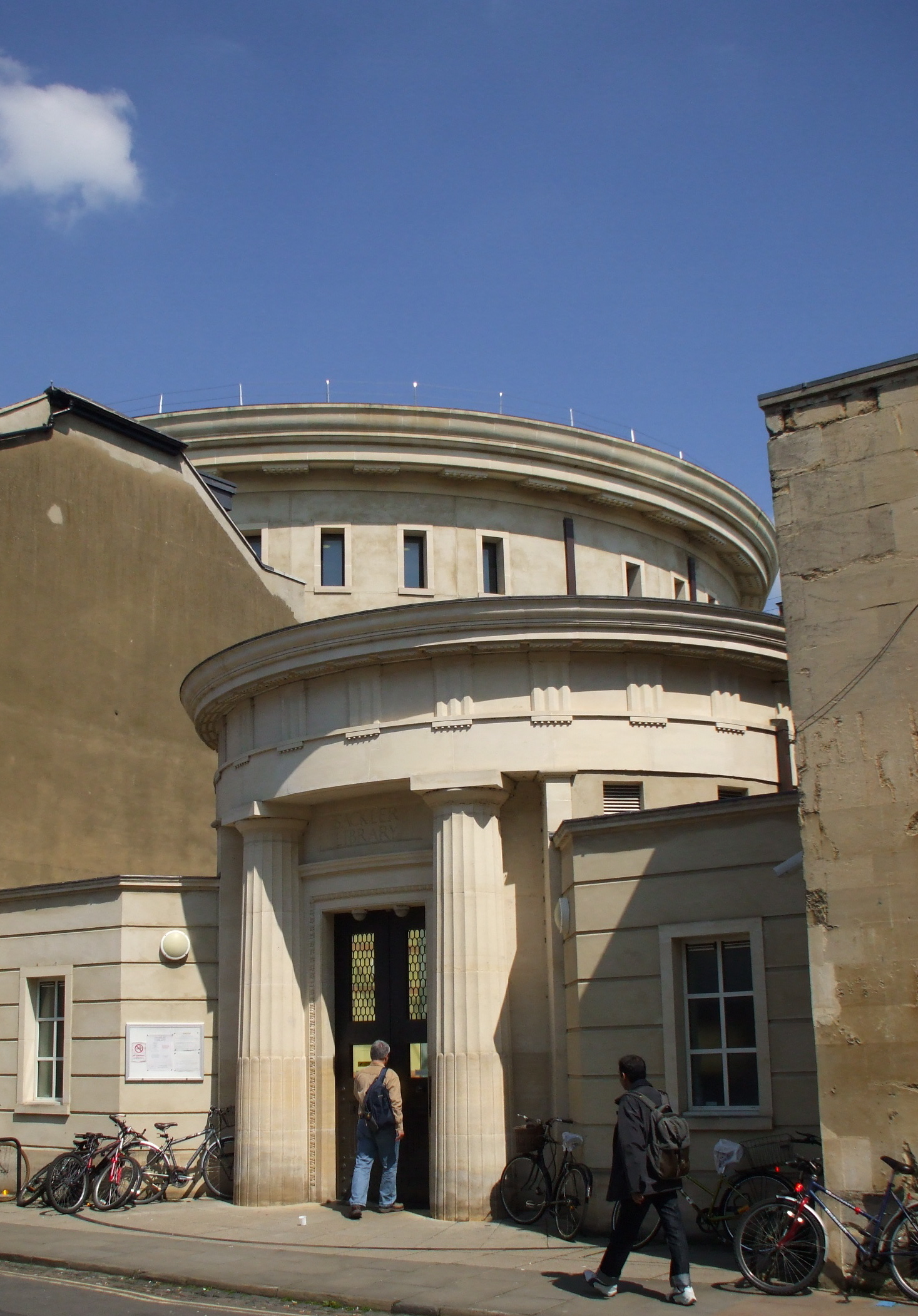 Sackler Library, Oxford, England